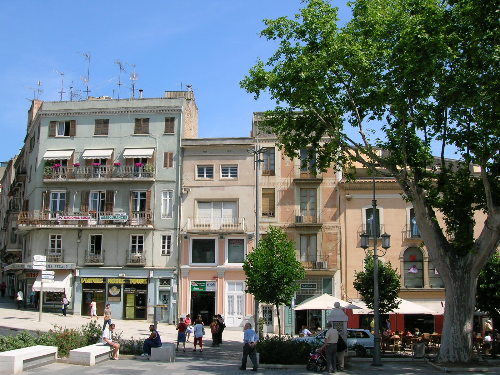 Figueres, town centre